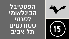 15 festival logo